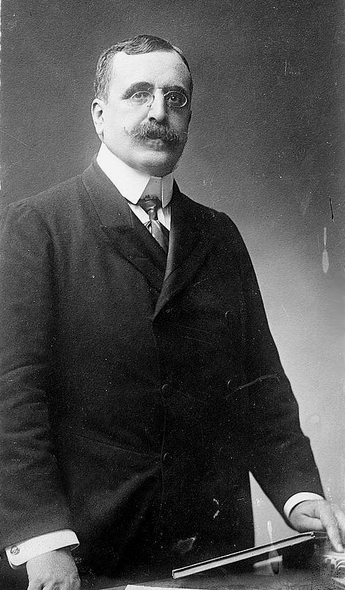 Photograph of Jose Canalejas y Mendez, nineteenth century Spanish politician.